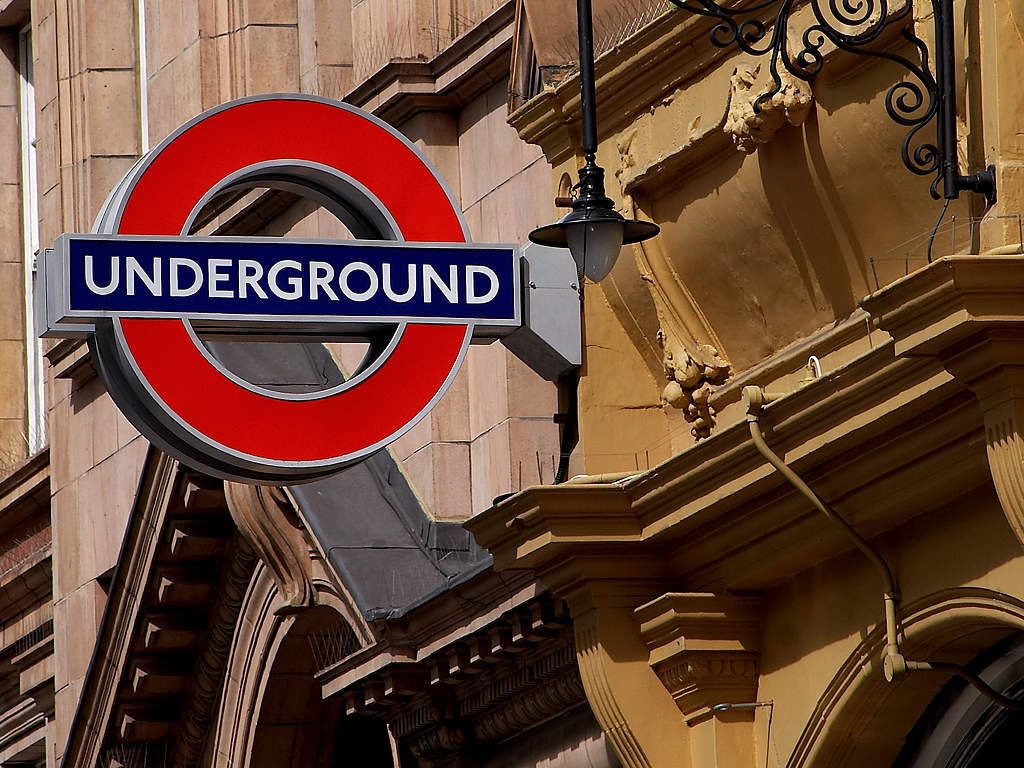 London Underground street sign.